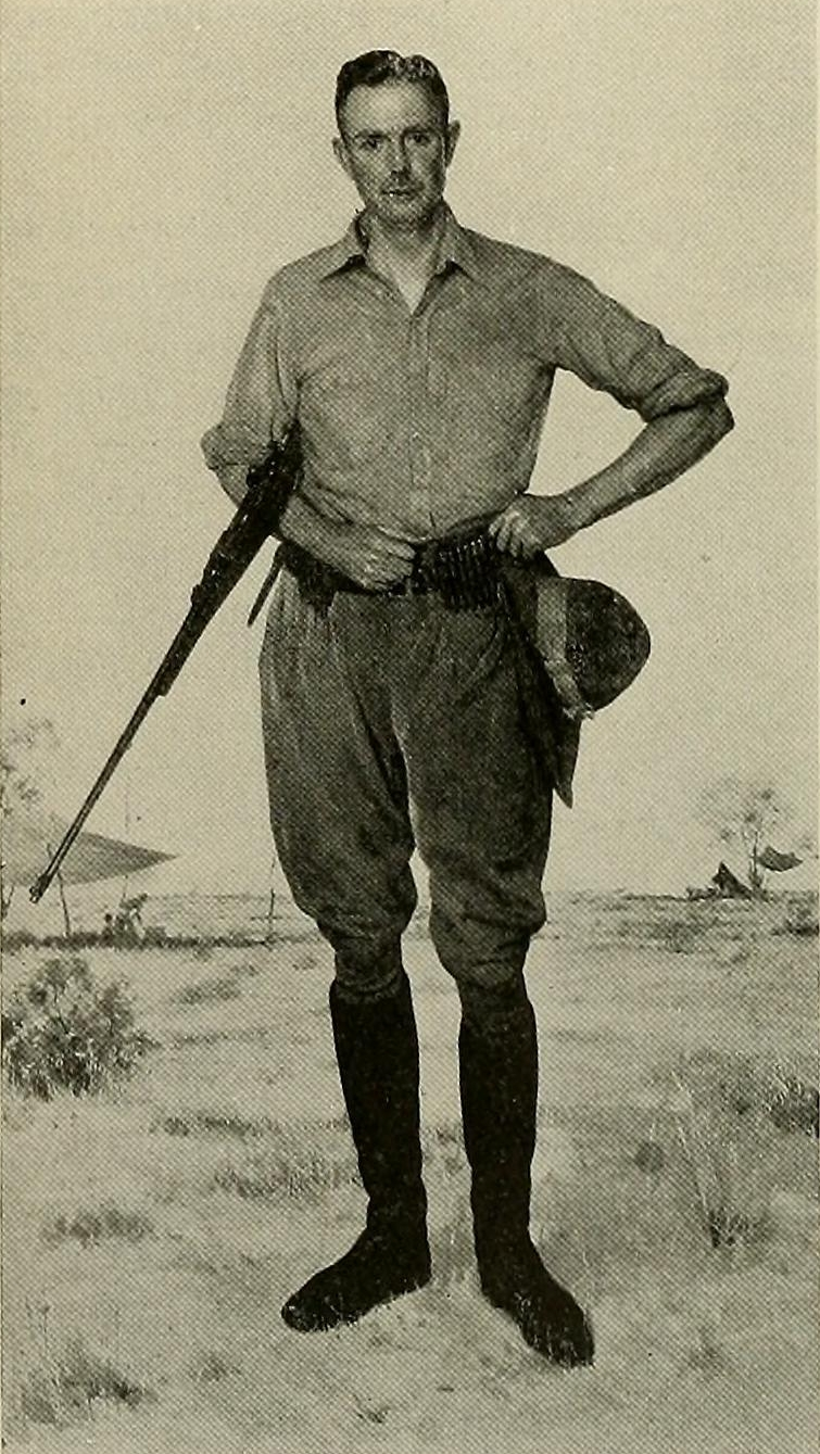 Arthur S. Vernay during the Vernay-Faunthorpe expedition to India in 1923